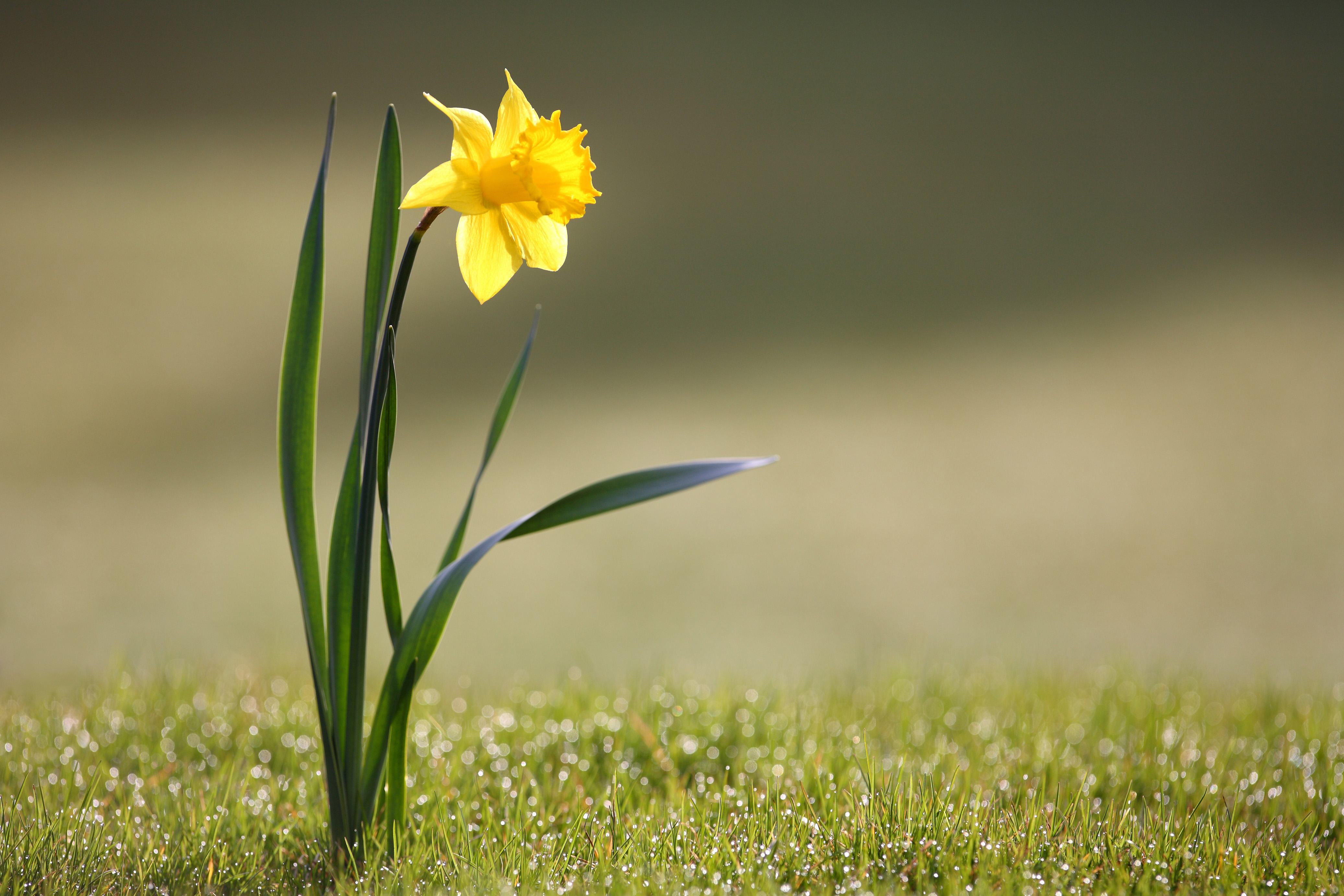 Wild daffodil